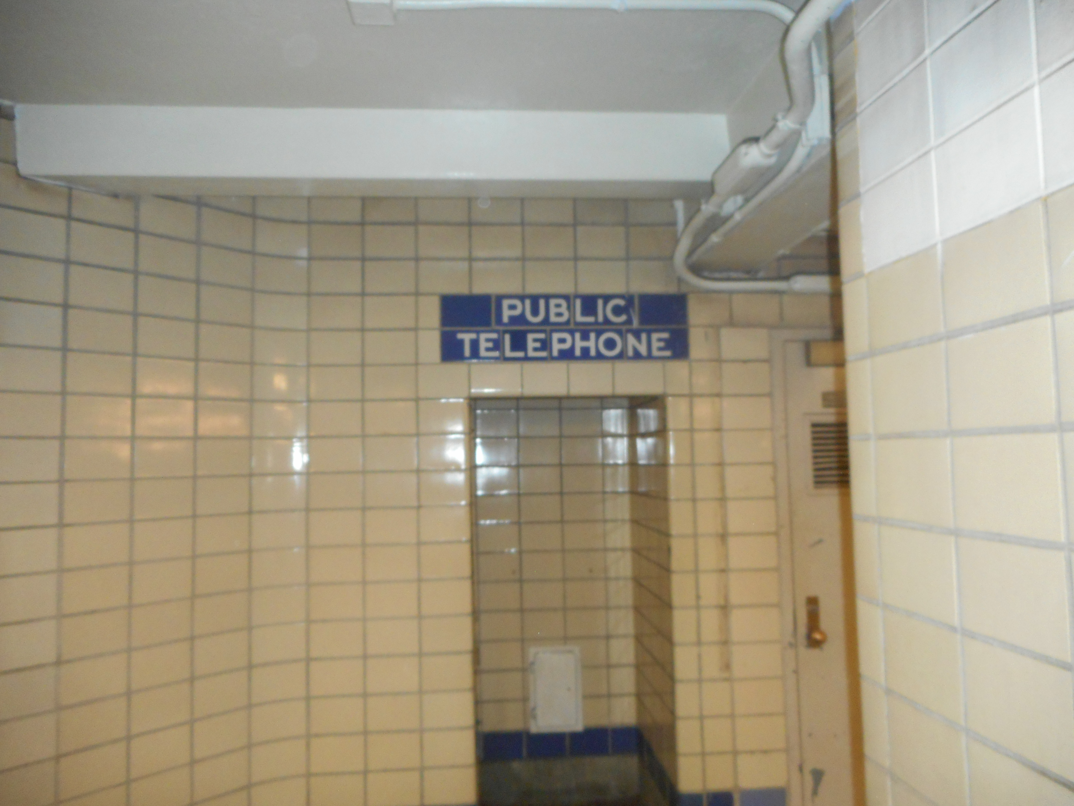 Tiles for a public pay phone that no longer exists in the center crossover at the Liberty Avenue Subway Station on the IND Fulton Street Line in the East New York section of Brooklyn, New York City. The indentation in the wall where the phone used to be still exists, though.